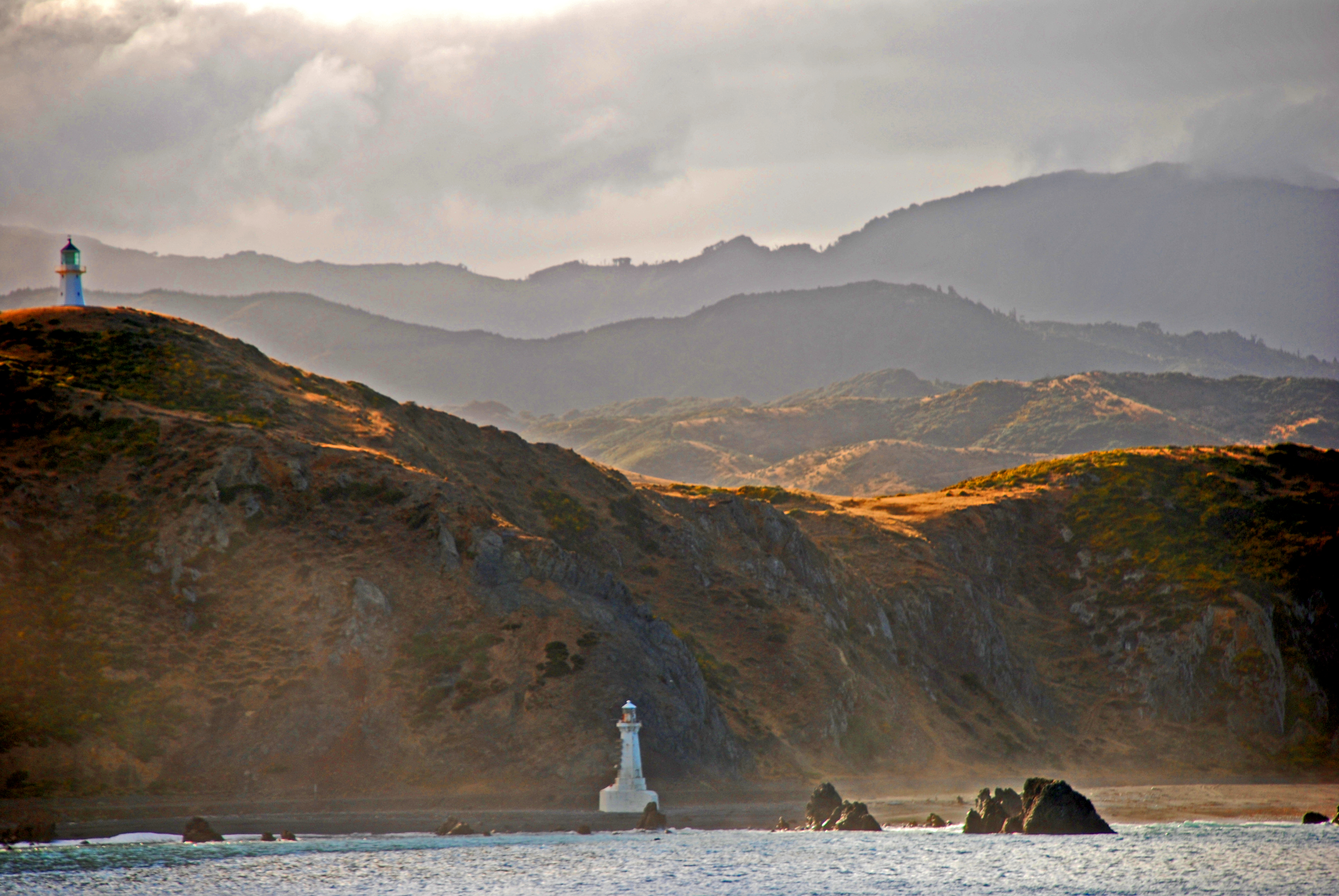 Pencarrow Head Lighthouse, Wellington, New Zealand. The higher lighthouse on the left is decommissioned, and listed with the New Zealand Historic Places Trust, Register number: 34.